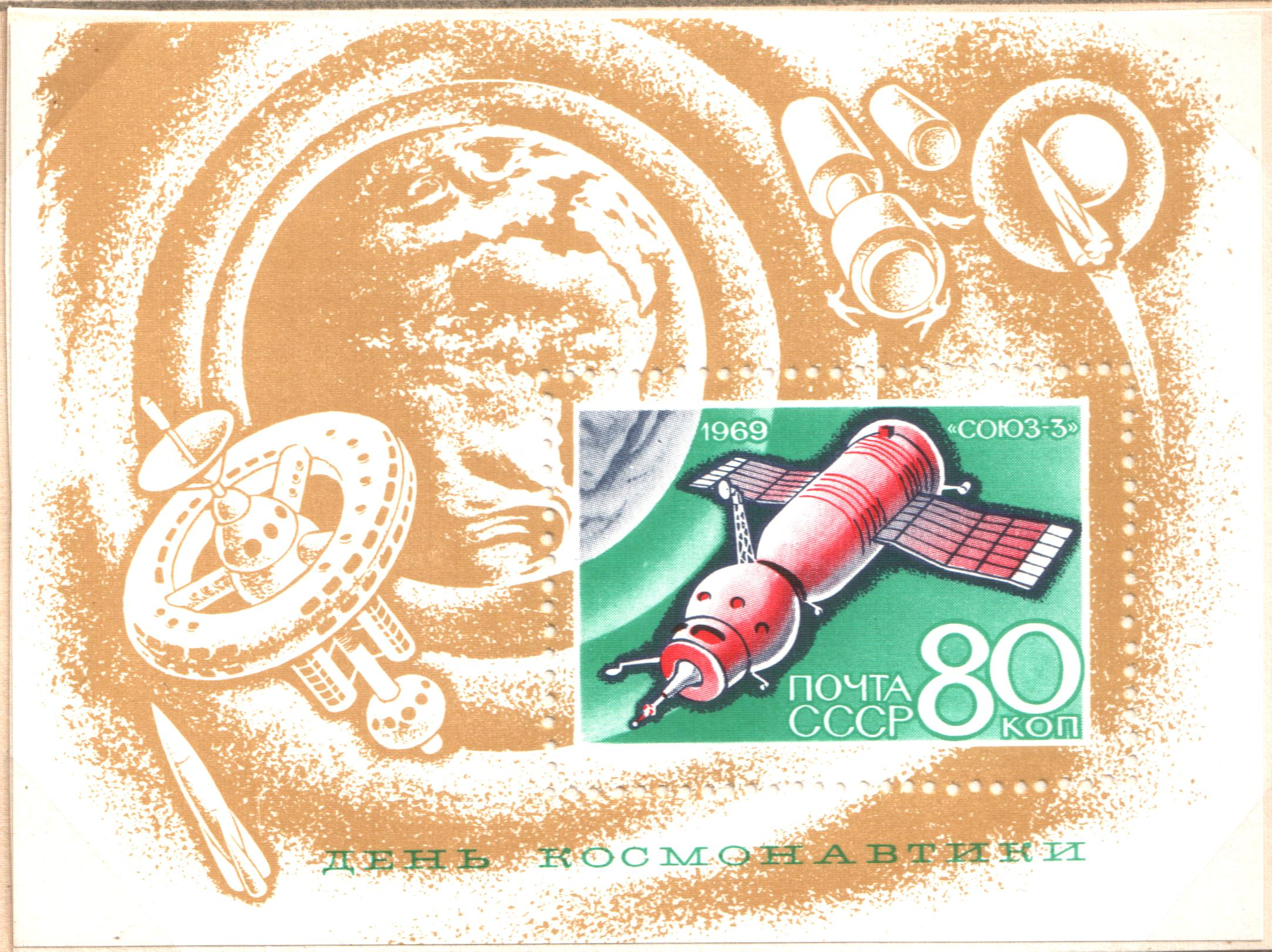 USSR Sheet of 1: Soyuz 3. Series: National Cosmonautics Day